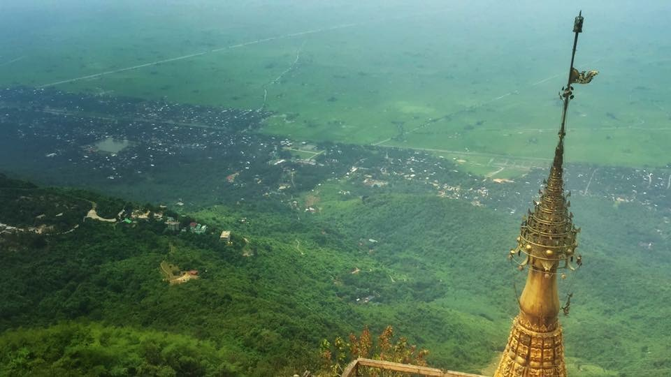 Golden Stupa on top of Zinkyaik Mountain- by Brittney Tun